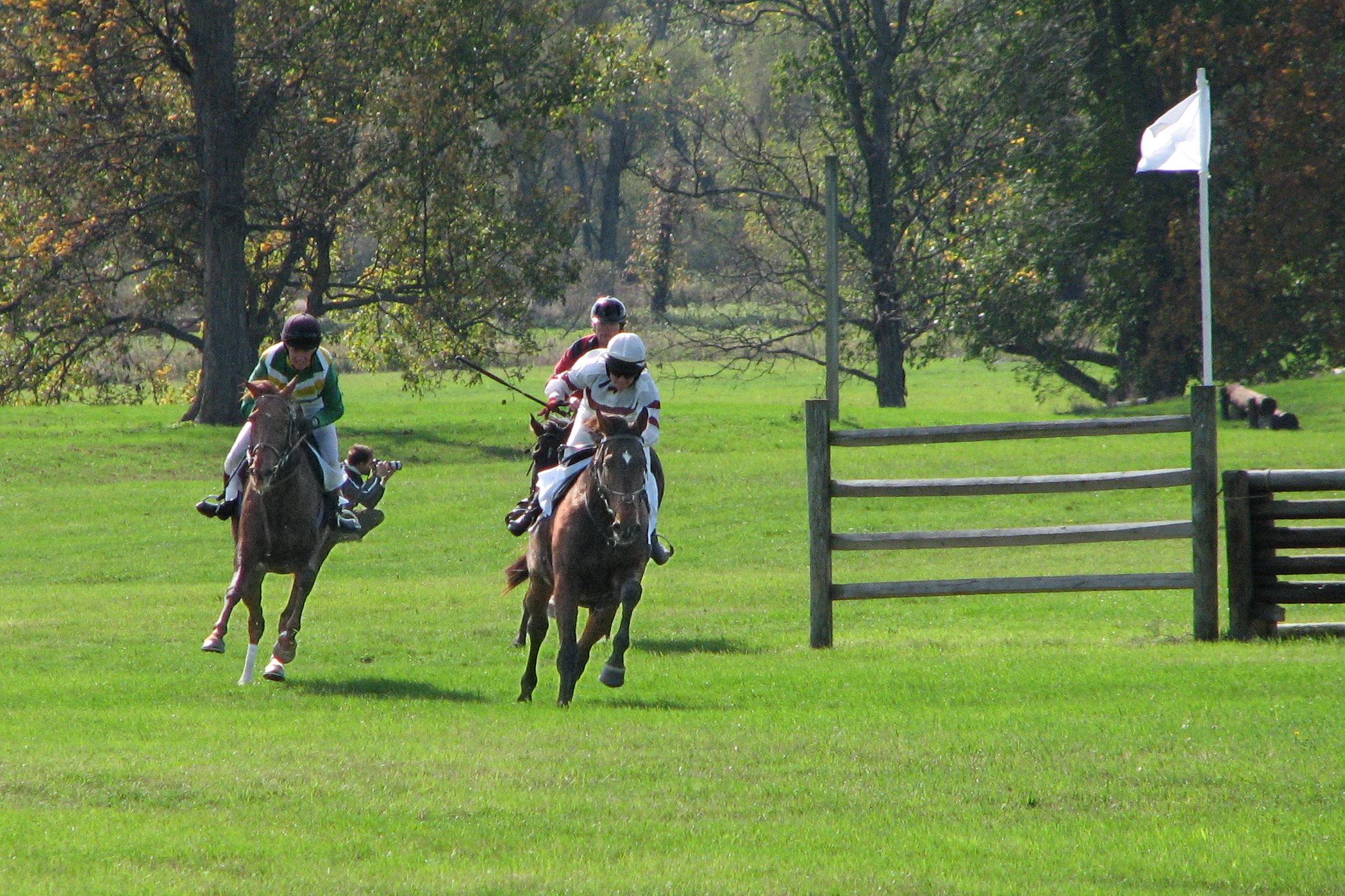 Some contestants of the Genesee Valley Hunt Cup, run during the 2007 Genesee Valley Hunt Races.